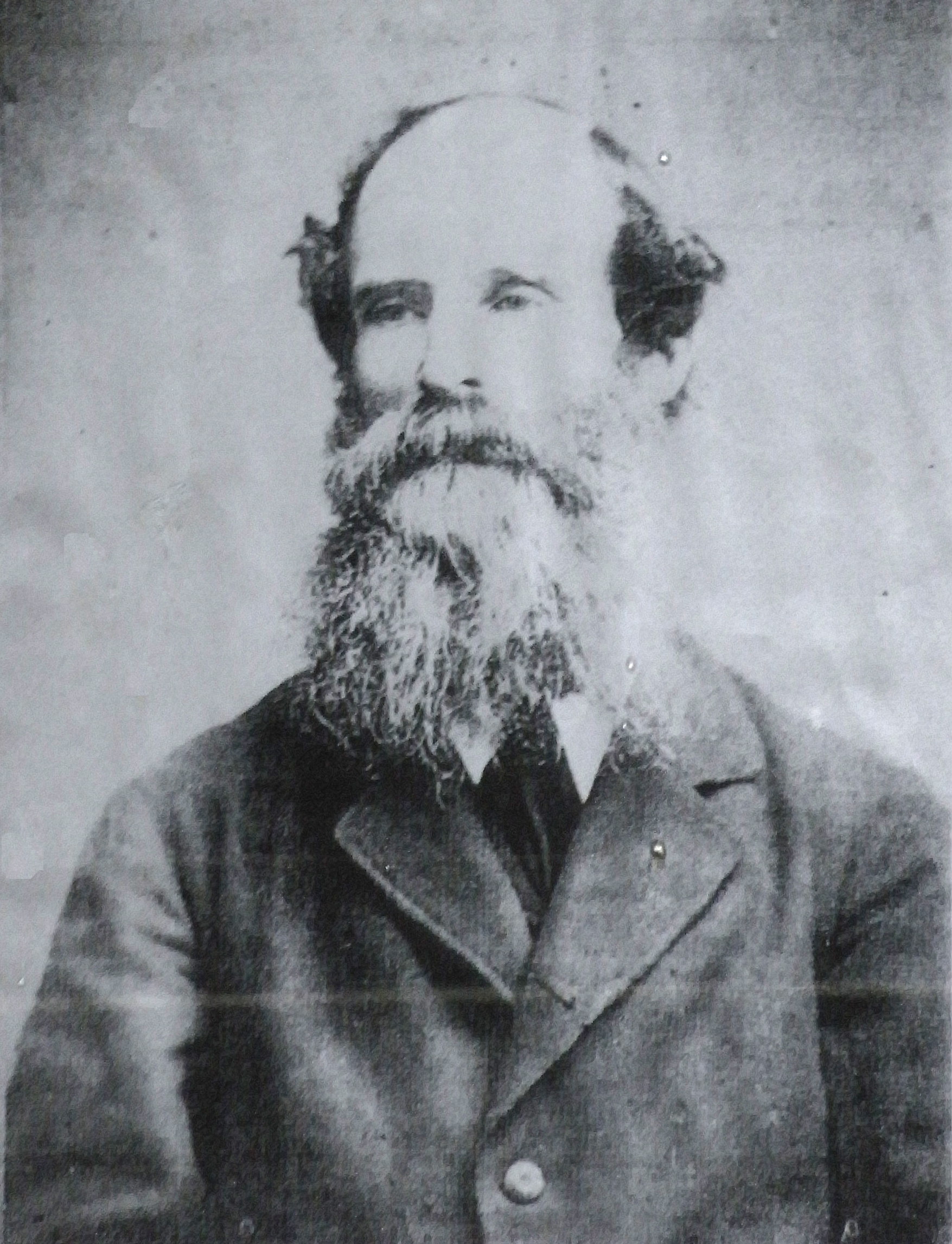 Photo of William White (1825-1900), FSA, architect